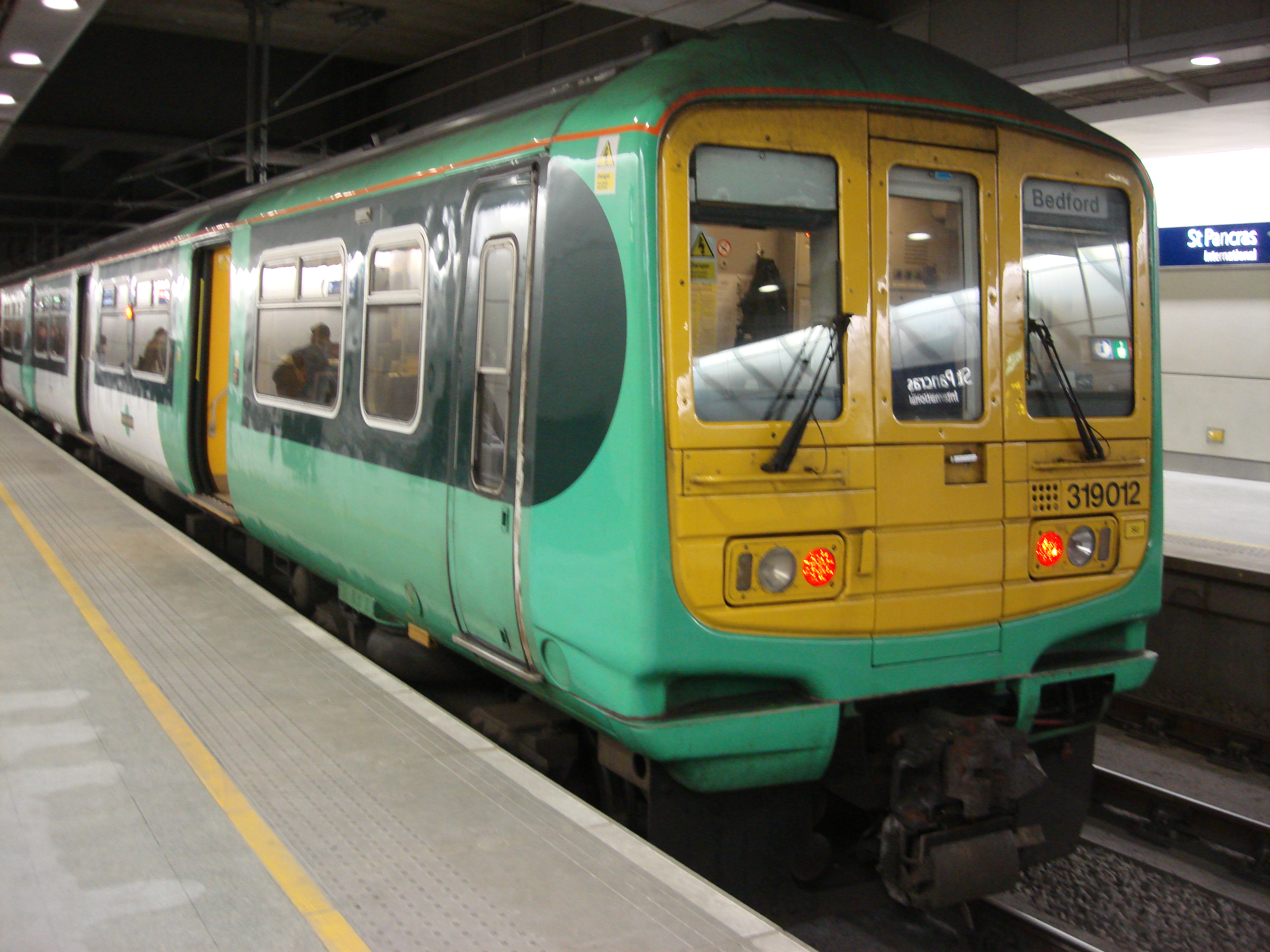 319012 at St Pancras